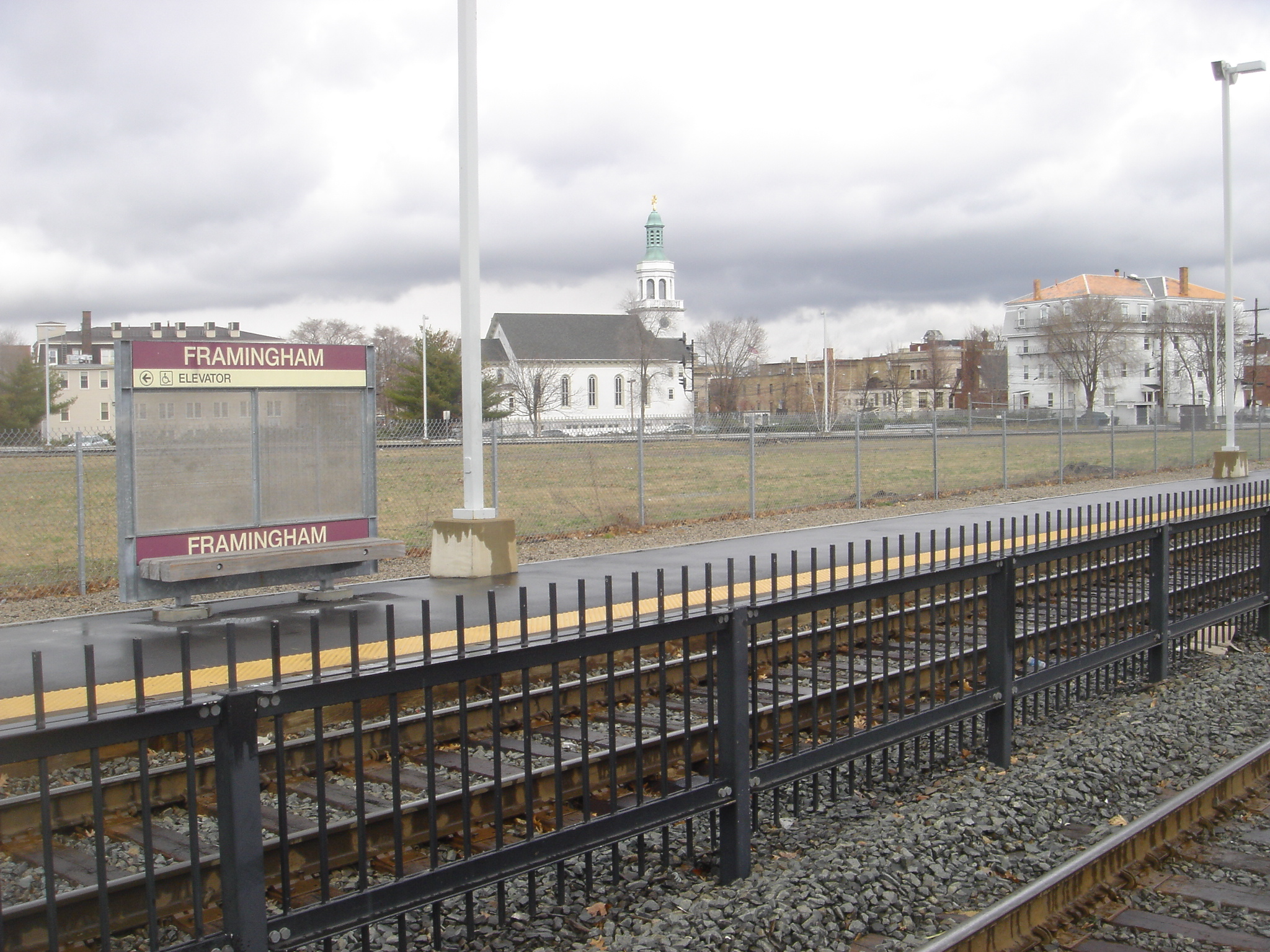 Outbound platform at Framingham staion on the MBTA Framingham/Worcester Line. The platform also serves westbound Amtrak Lake Shore Limited trains.